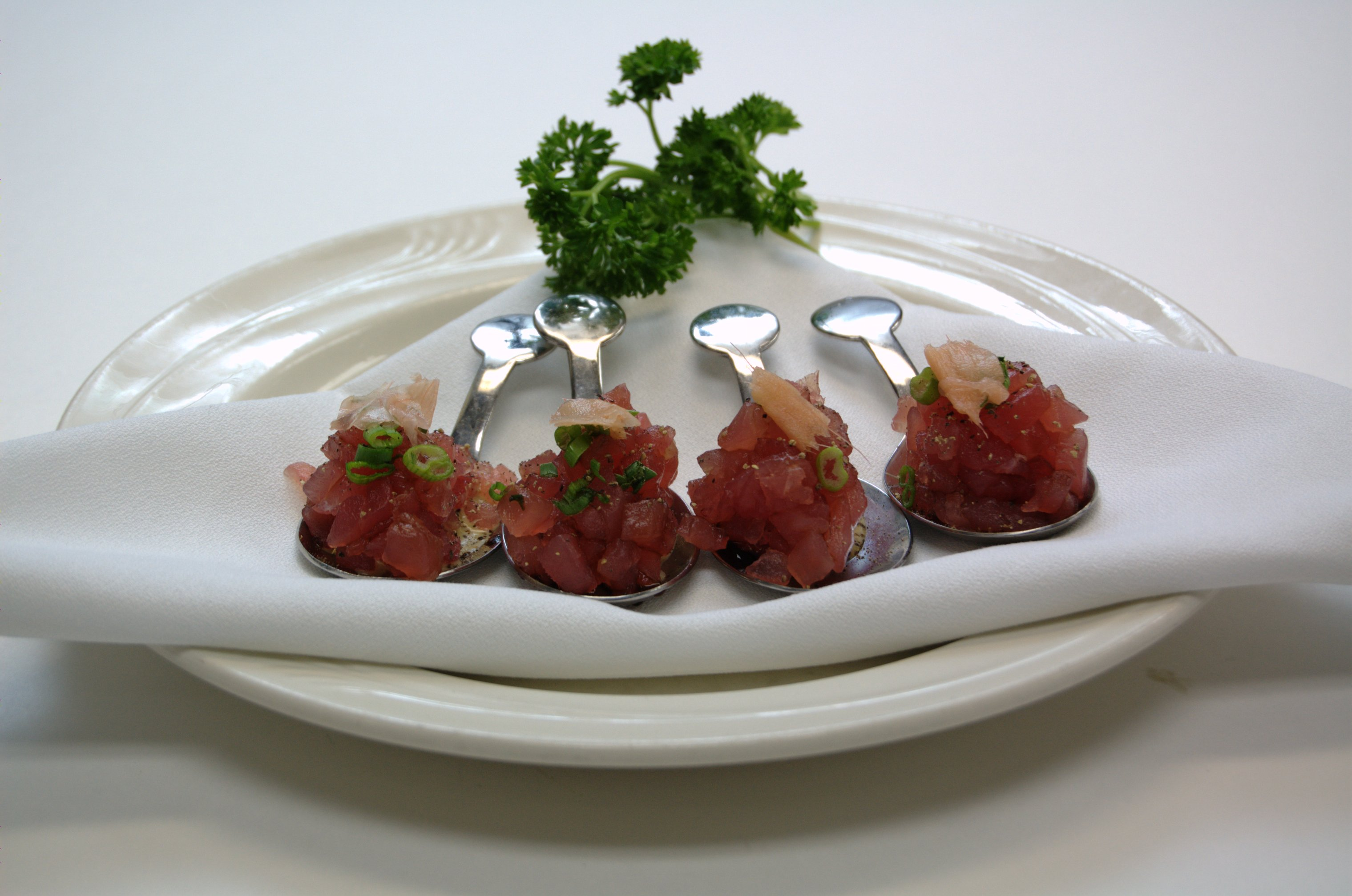 Tuna Tartare, dish provided courtesy of The Boathouse at Sunday Park